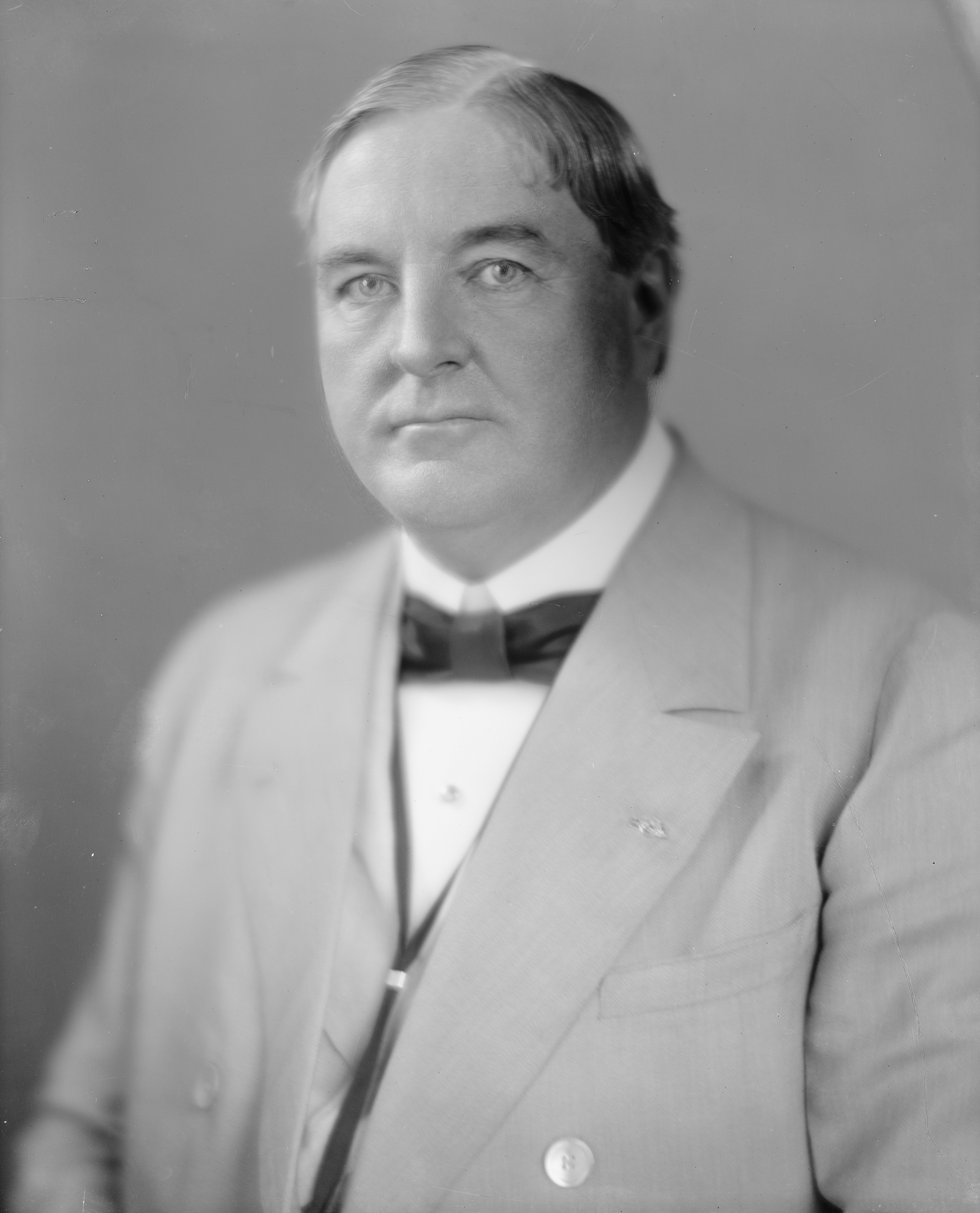 Title: HEFLIN, J. THOMAS. SENATOR Abstract/medium: 1 negative : glass ; 8 x 10 in. or smaller